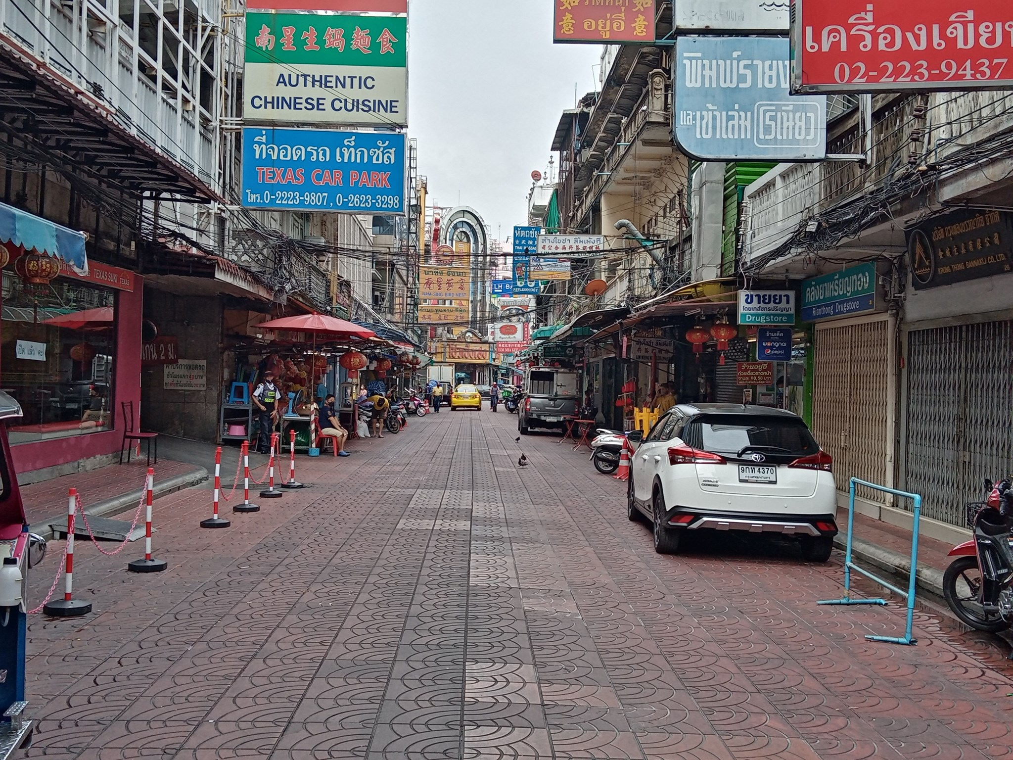 Phadung Dao Rd. or familiarly known as Texas Lane